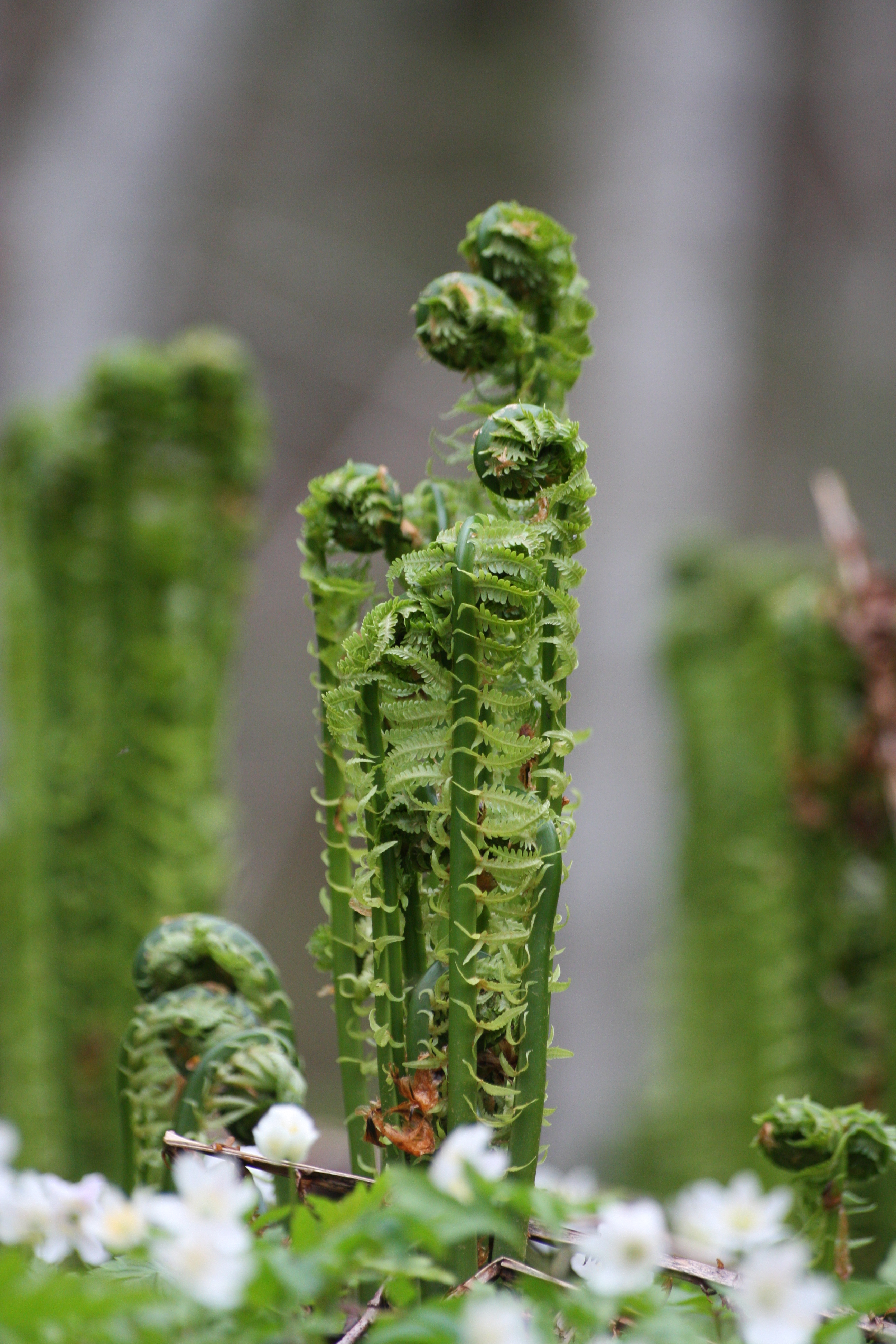 Matteuccia struthiopteris, young plant, in Hurum, Buskerud (Norway)